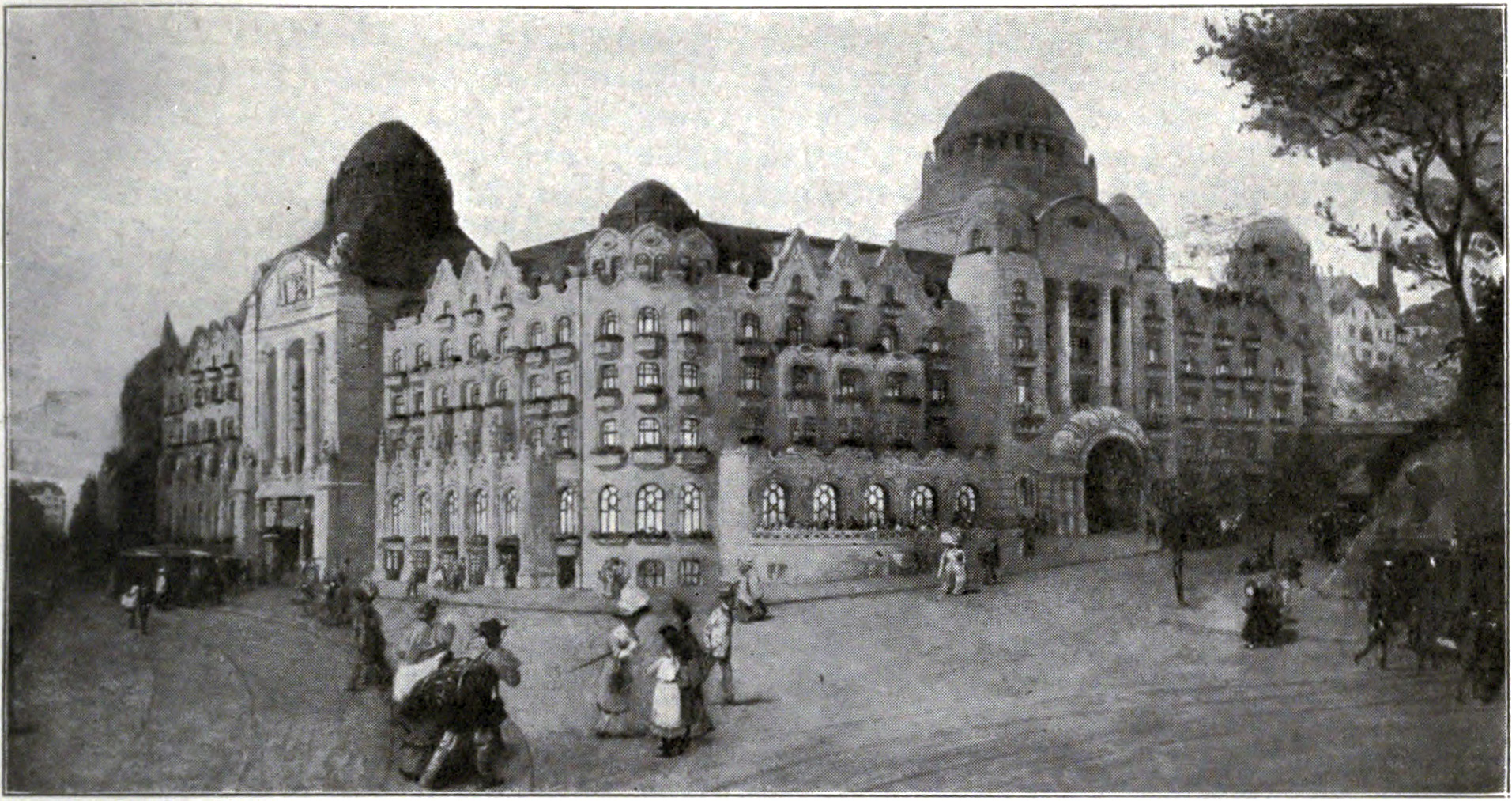 Hotel Gellért and Gellért bath in Budapest (1912)